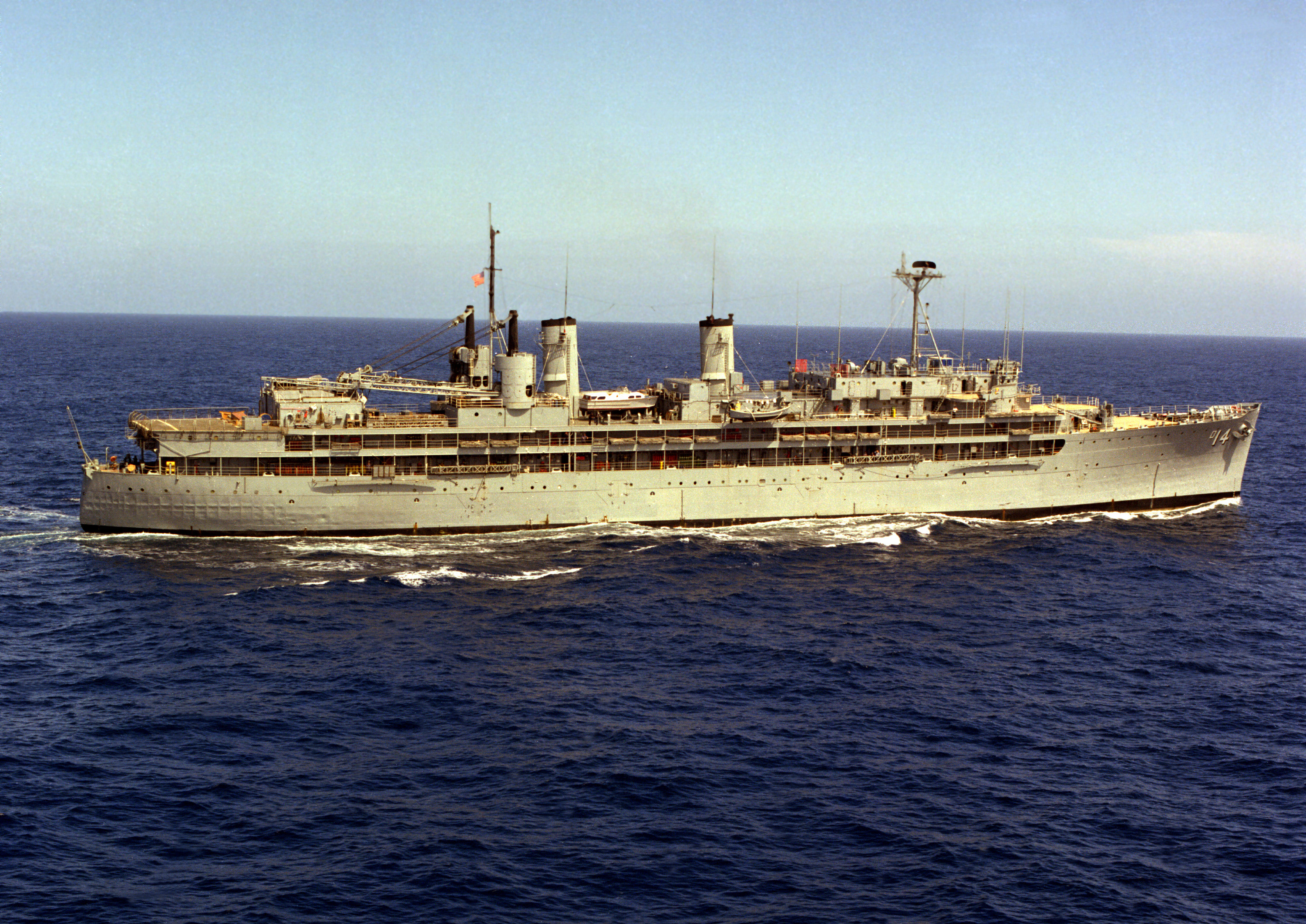 The U.S. Navy destroyer tender USS Dixie (AD-14) underway off the coast of southern California (USA) on 1 April 1976.